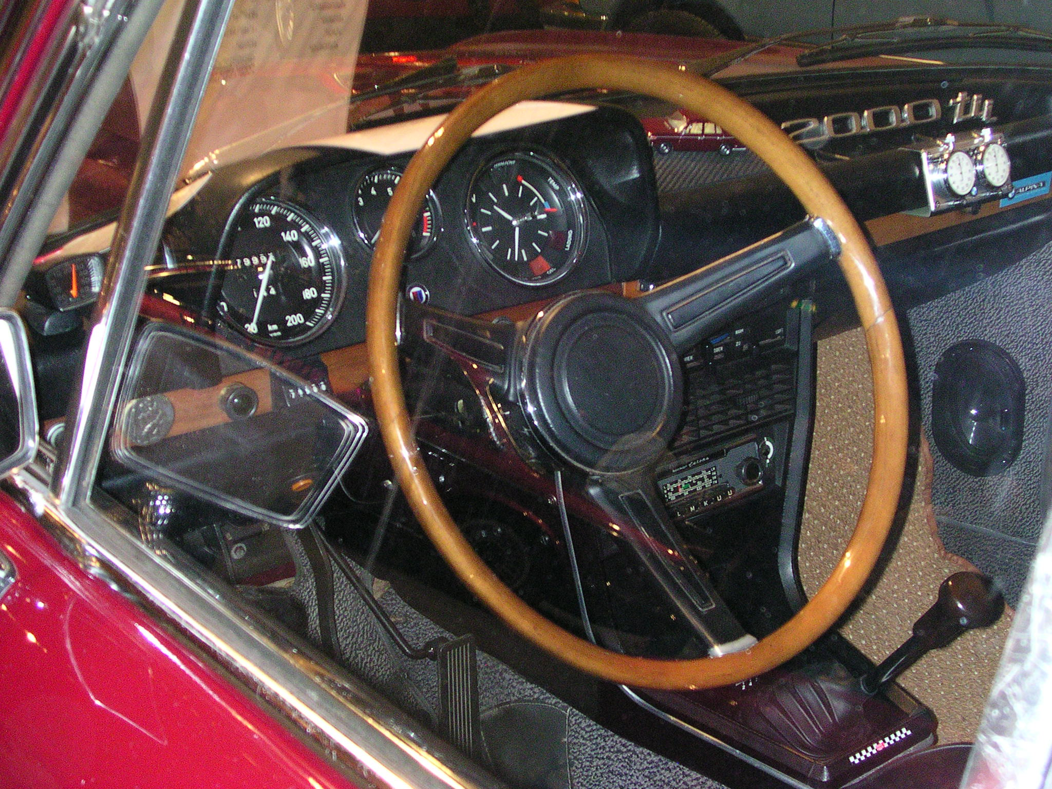 Essen Techno-Classica 2007, BMW 2000 tii build 1971